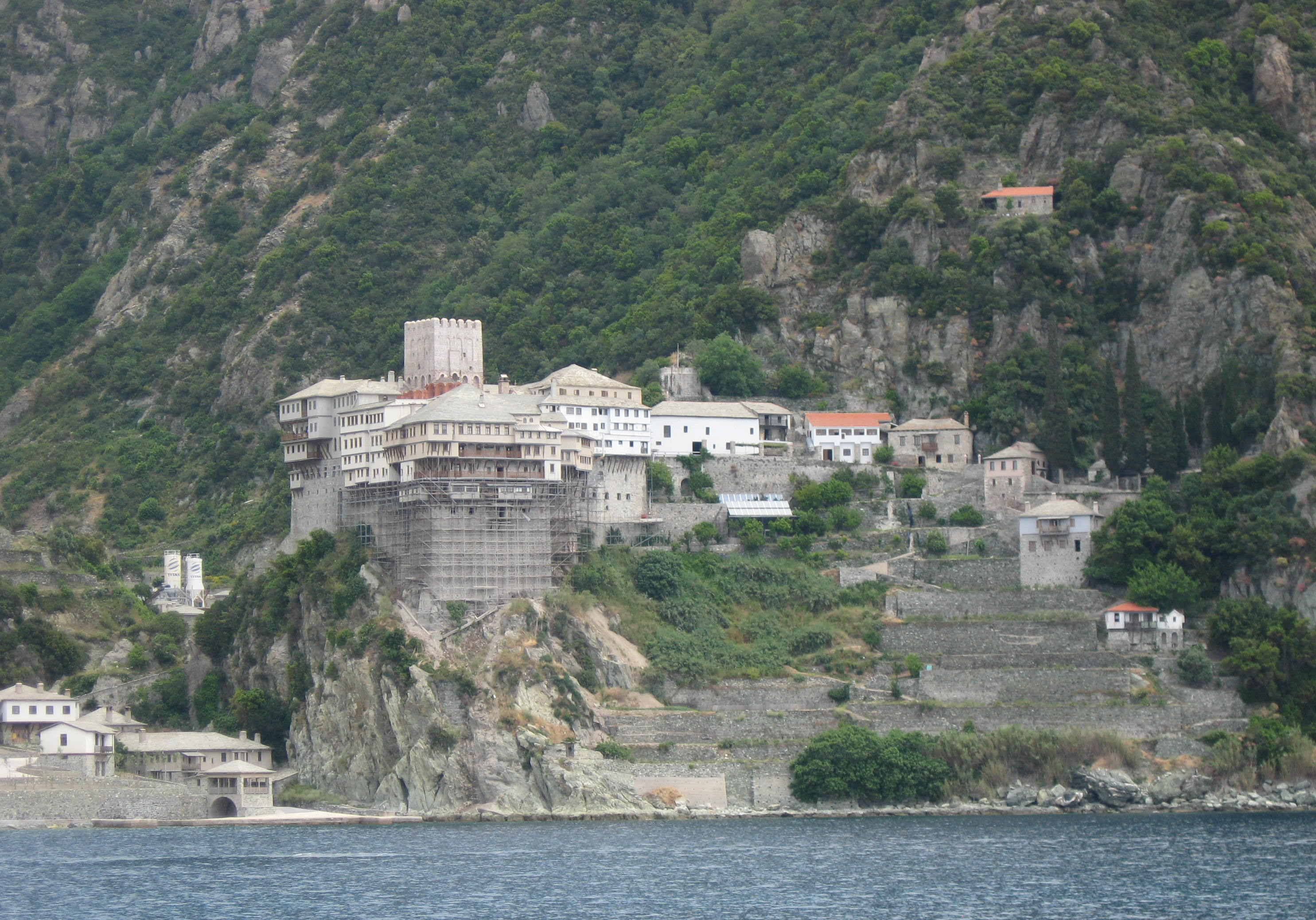 View of Dionysiou Monastery from the sea